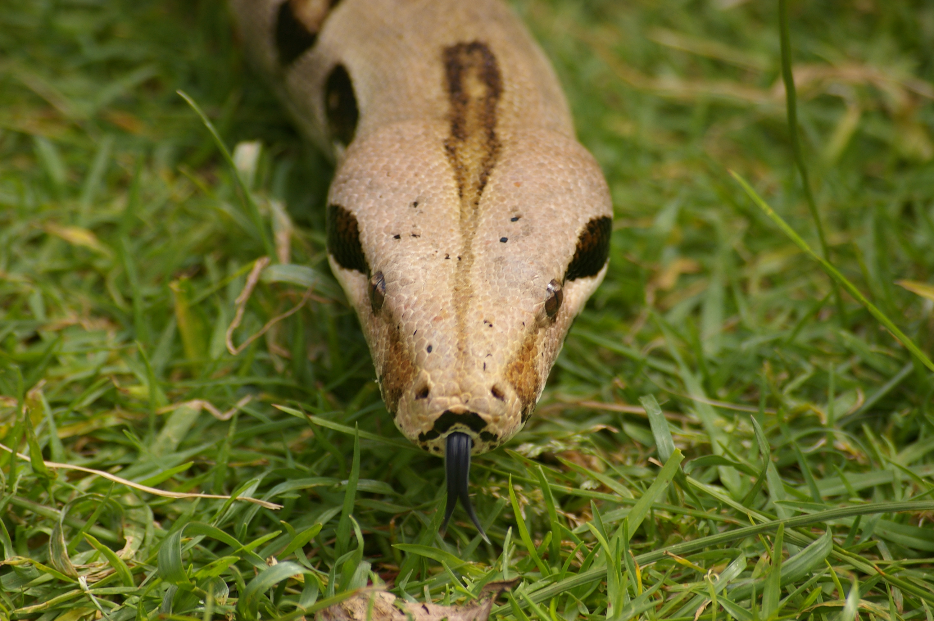 Red Tail Boa Constrictor Boa constrictor constrictor (Linnaeus, 1758).Photo taken at Armadale Reptile Centre the handler had it out of its cage to enable visitors to touch it. I laid down across its path and waited for it to approach. taking a couple of shots trying to get the tongue as well.